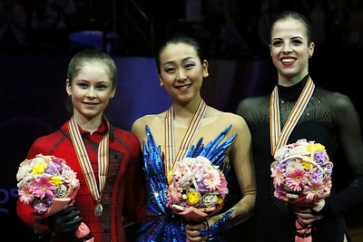 The ladies podium at the 2014 World Championships.From left: Julia Lipnitskaia (2nd), Mao Asada (1st), Carolina Kostner (3rd).